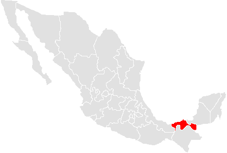 A map of the Mexican state of tabasco made by me